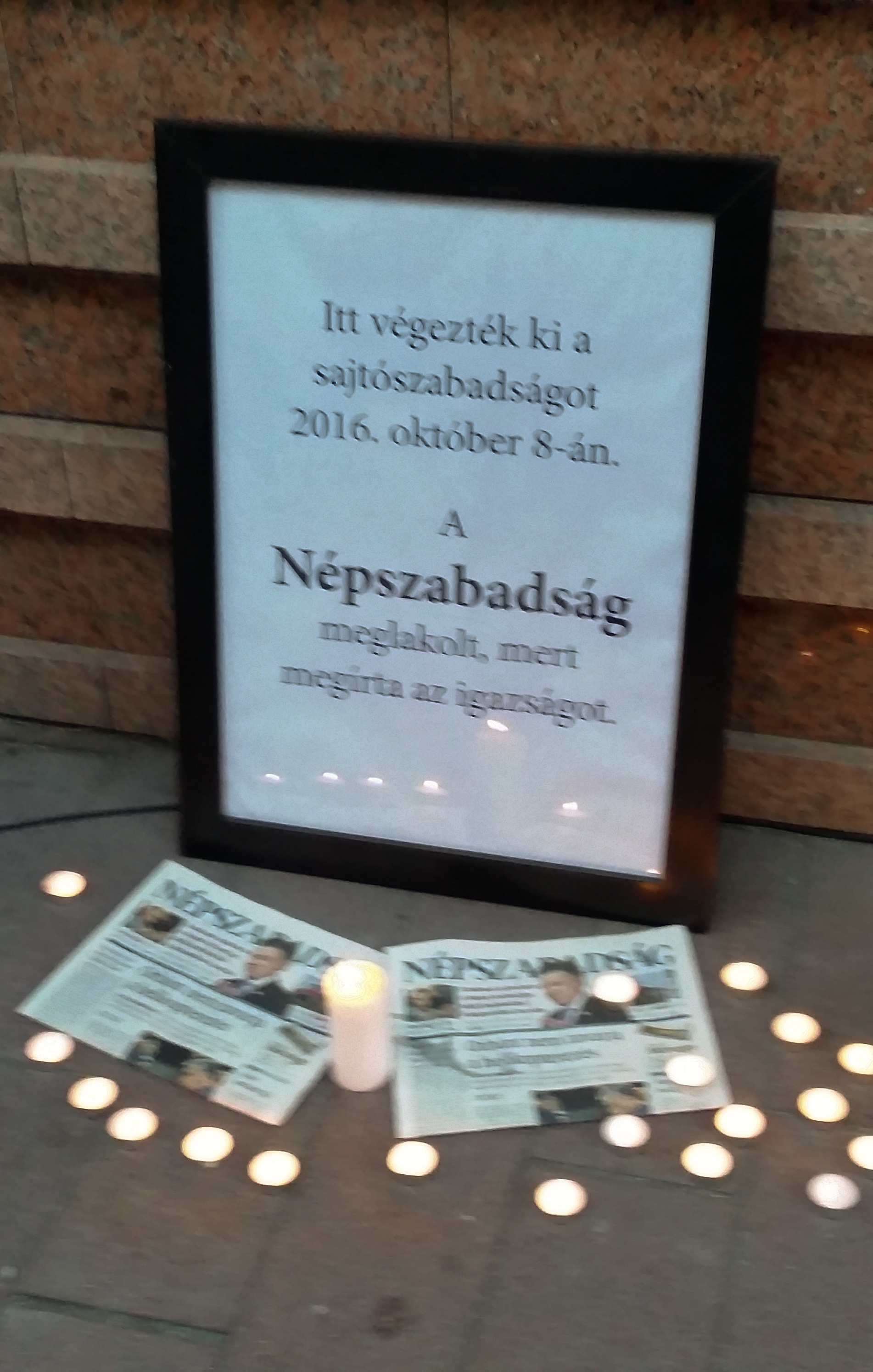 Sign at a demonstration against the suspension of the Hungarian left-wing paper, the Népszabadság